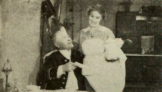 Still from the American film In the Name of the Law (1922) with Ralph Lewis and Claire McDowell, on page 58 of the September 1922 Photoplay.